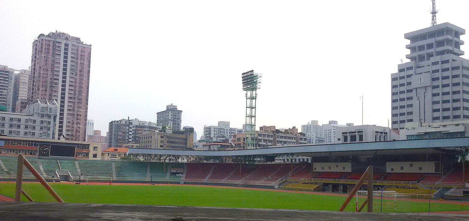 Guangdong Provincial People's Stadium 粵語: 廣東省人民體育場